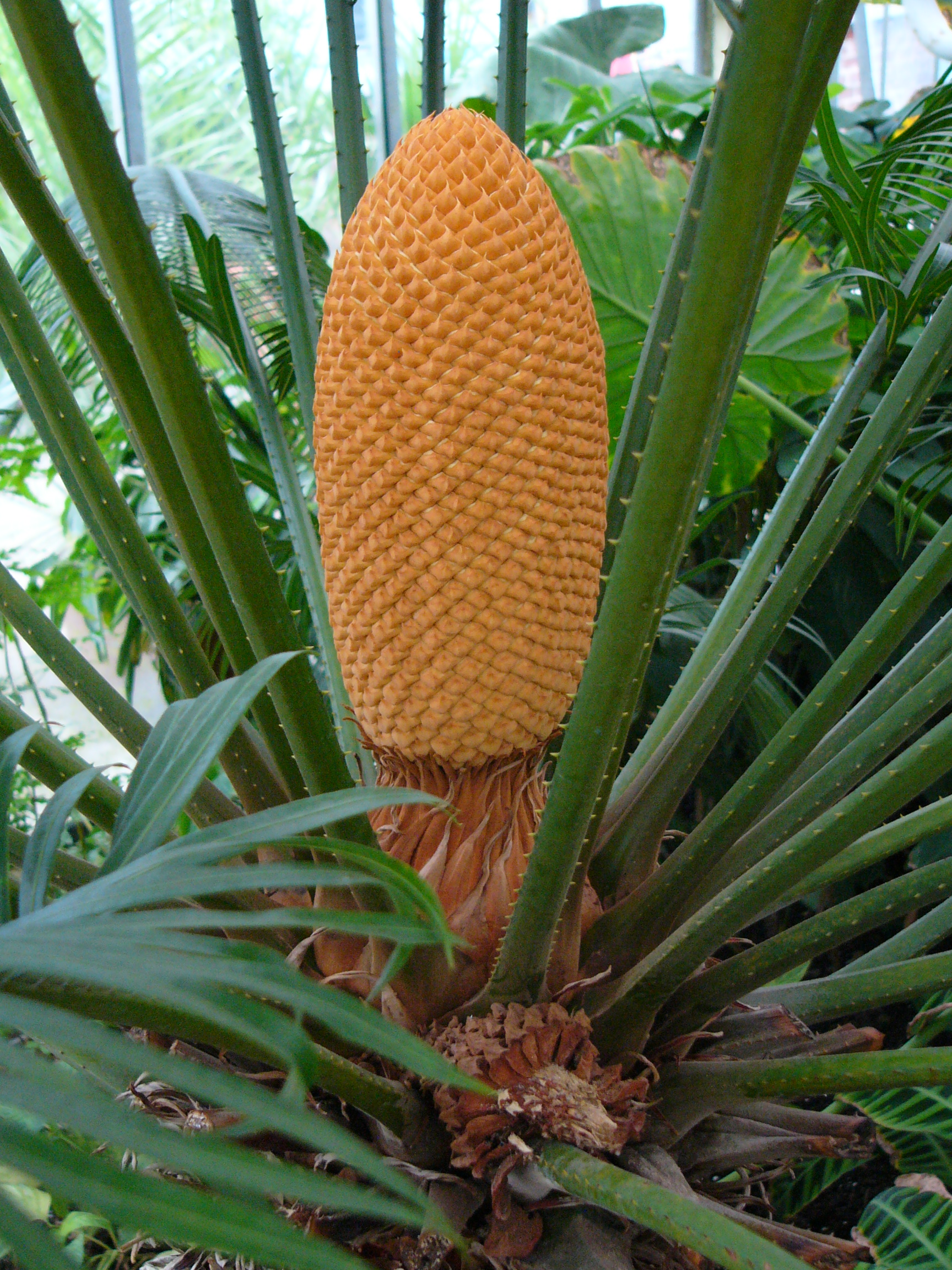 male cone of Cycas circinalis in Olomouc (Czech Republic).